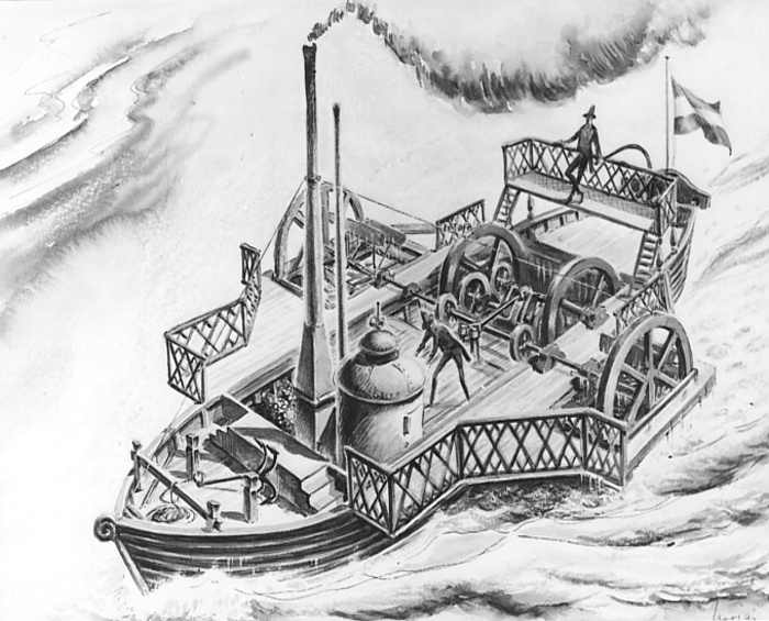 Carolina, the first Hungarian-built steamship. It was built by Antal Bernhard in 1817.